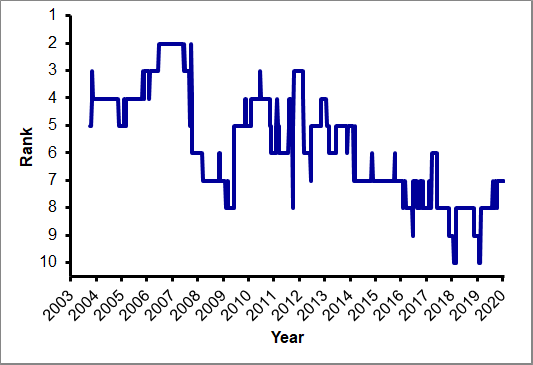 IRB World Rankings from